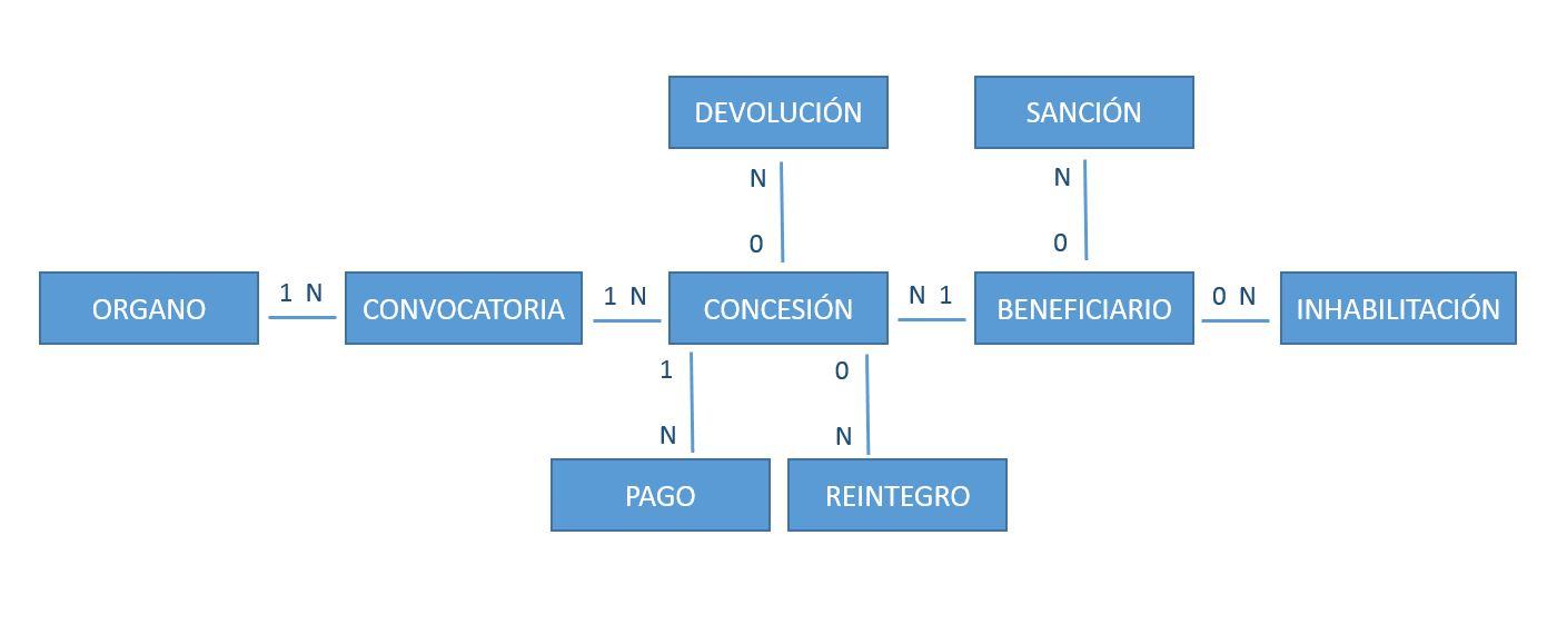 Simplified model of Spanish National Database on Grants and Subsidies